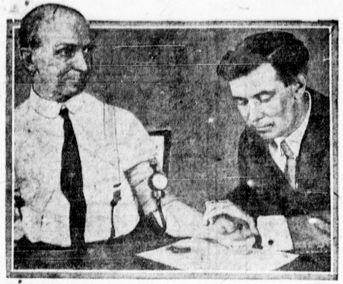 Original contemporary caption: This shows Dr. William M. Marston testing his "lie detector" on E. E. Duddington, founder and president of the "Prisoners' Relief society." Duddington served a five years' sentence for involuntary manslaughter and he hopes Doctor Marston's "detector" will vindicate the story he told at his trial.